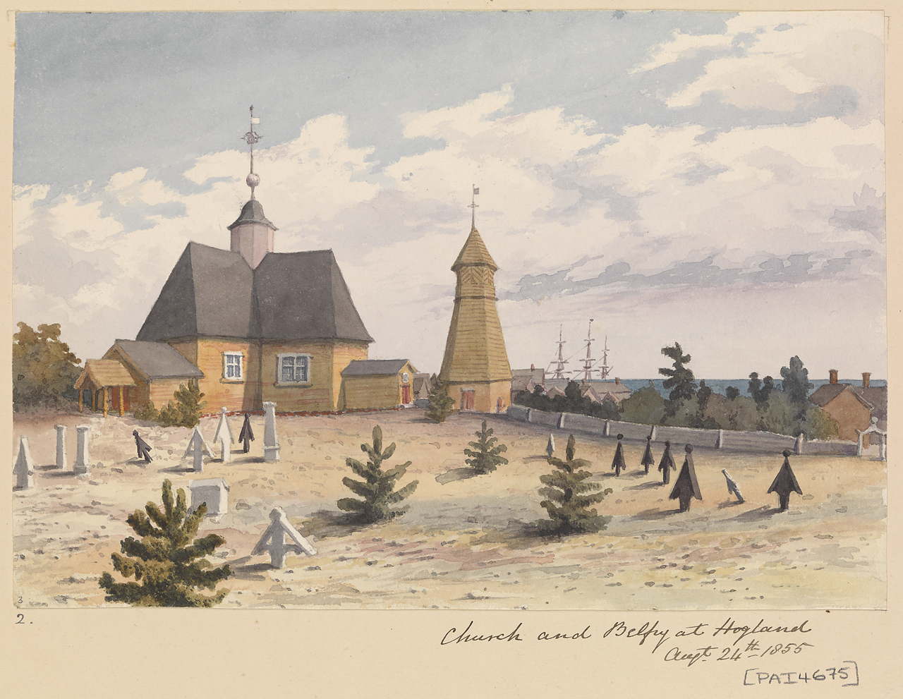 'Church and Belfry at Hogland, Augt 24th 1855' [Finland].